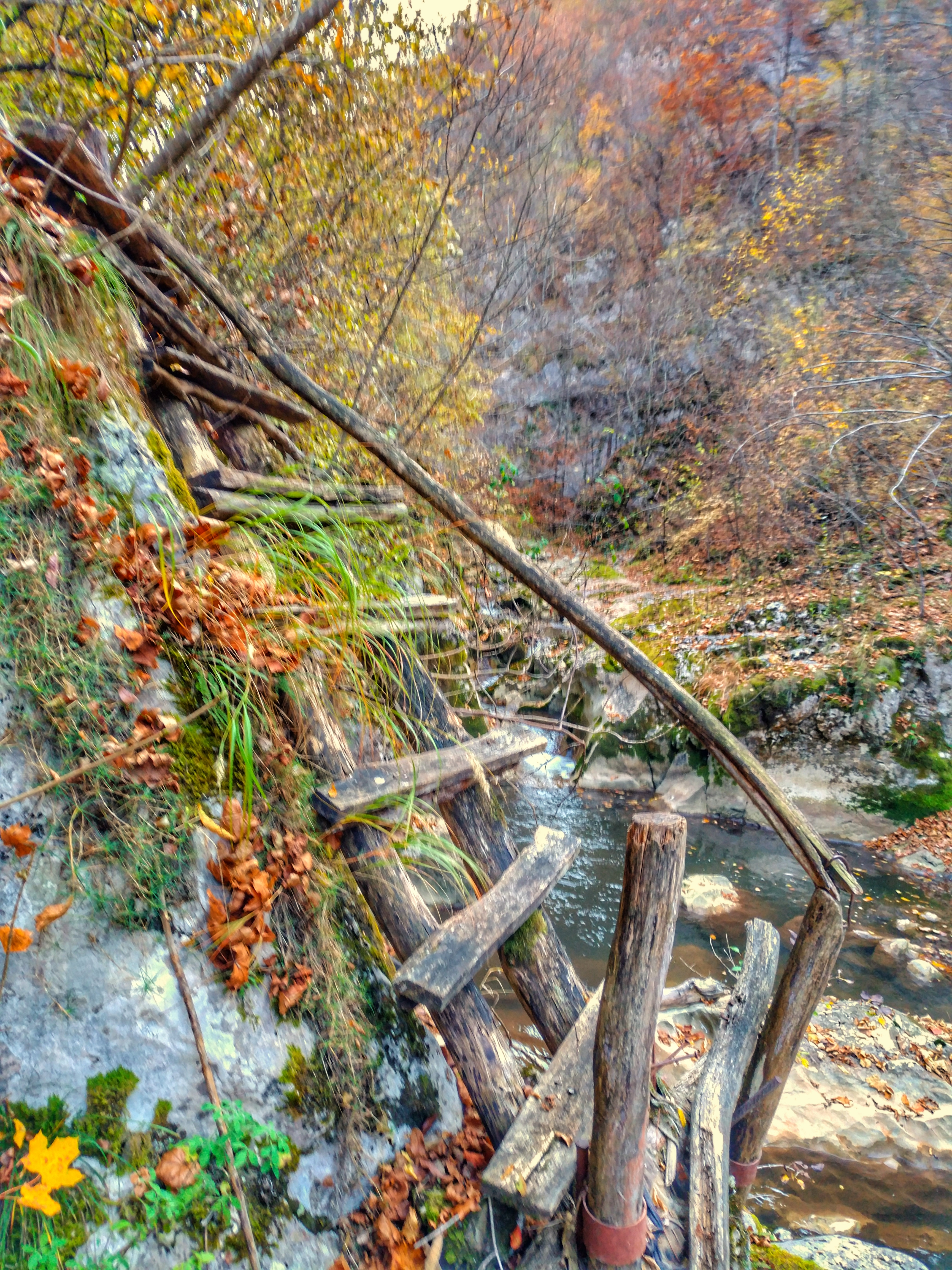 The missing path